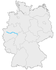 Course of Ruhr, a river in Germany